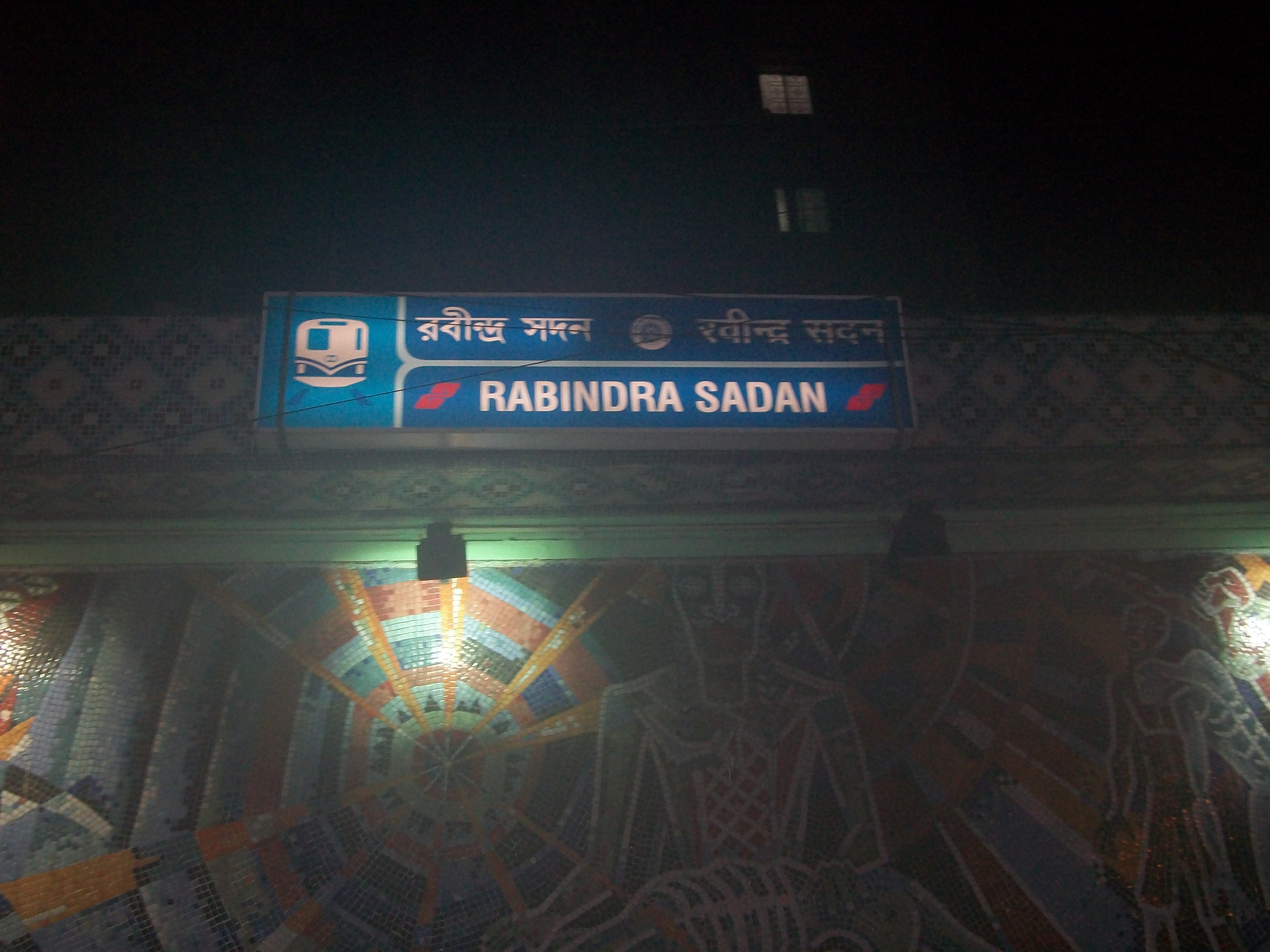 Rabindra Sadan Metro Station,SSKM gate